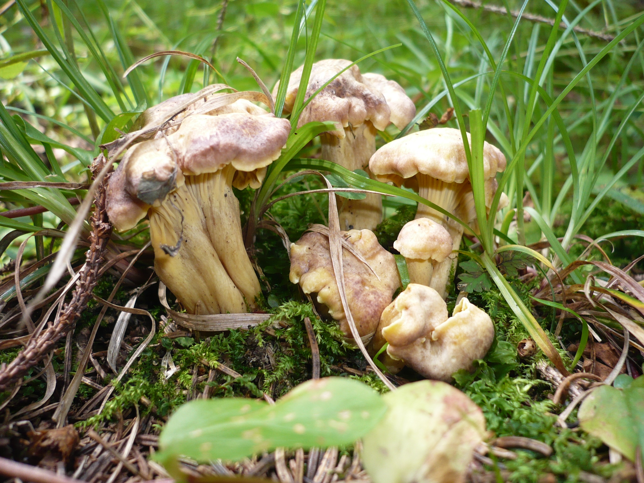 Cantharellus amethysteus (Quelet) Saccardo Location: Jassinggraben, TragÃ Ã%uFFFD, Bezirk Bruck an der Mur, Styria, Austria Observation Notes: [admin – Sat Aug 14 02:01:35 0000 2010]: Changed location name from ‘Jassinggraben,TragÃ Ã%uFFFD,Bezirk Bruck an der Mur,Styria,Austria’ to ‘Jassinggraben, TragÃ Ã%uFFFD, Bezirk Bruck an der Mur, Styria, Austria’ For more information about this, see the observation page at Mushroom Observer.